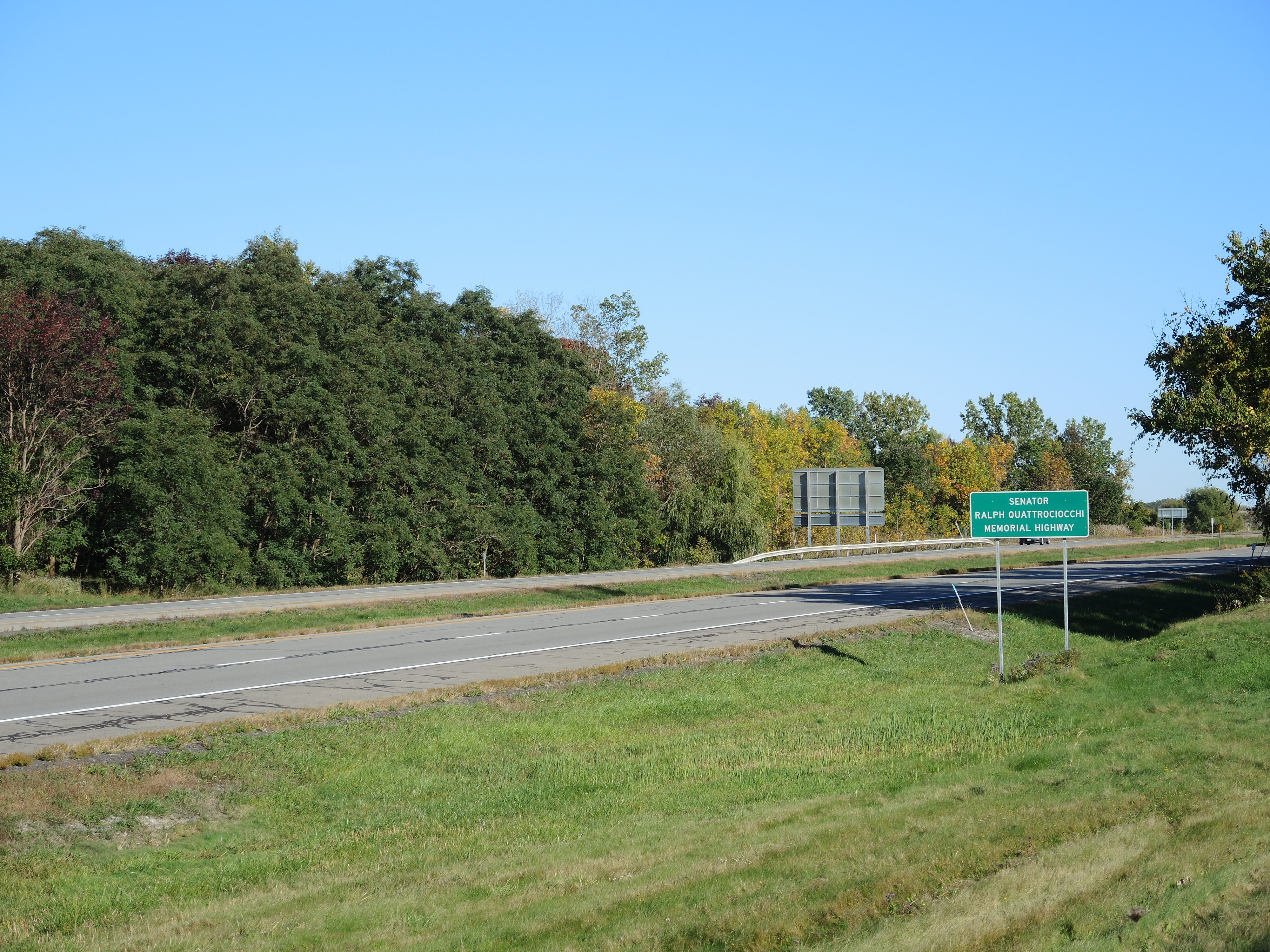 Ralph E. Quattrociocchi Memorial Highway, also known as New York State Route 531 or the Spencerport Expressway, in Ogden, New York